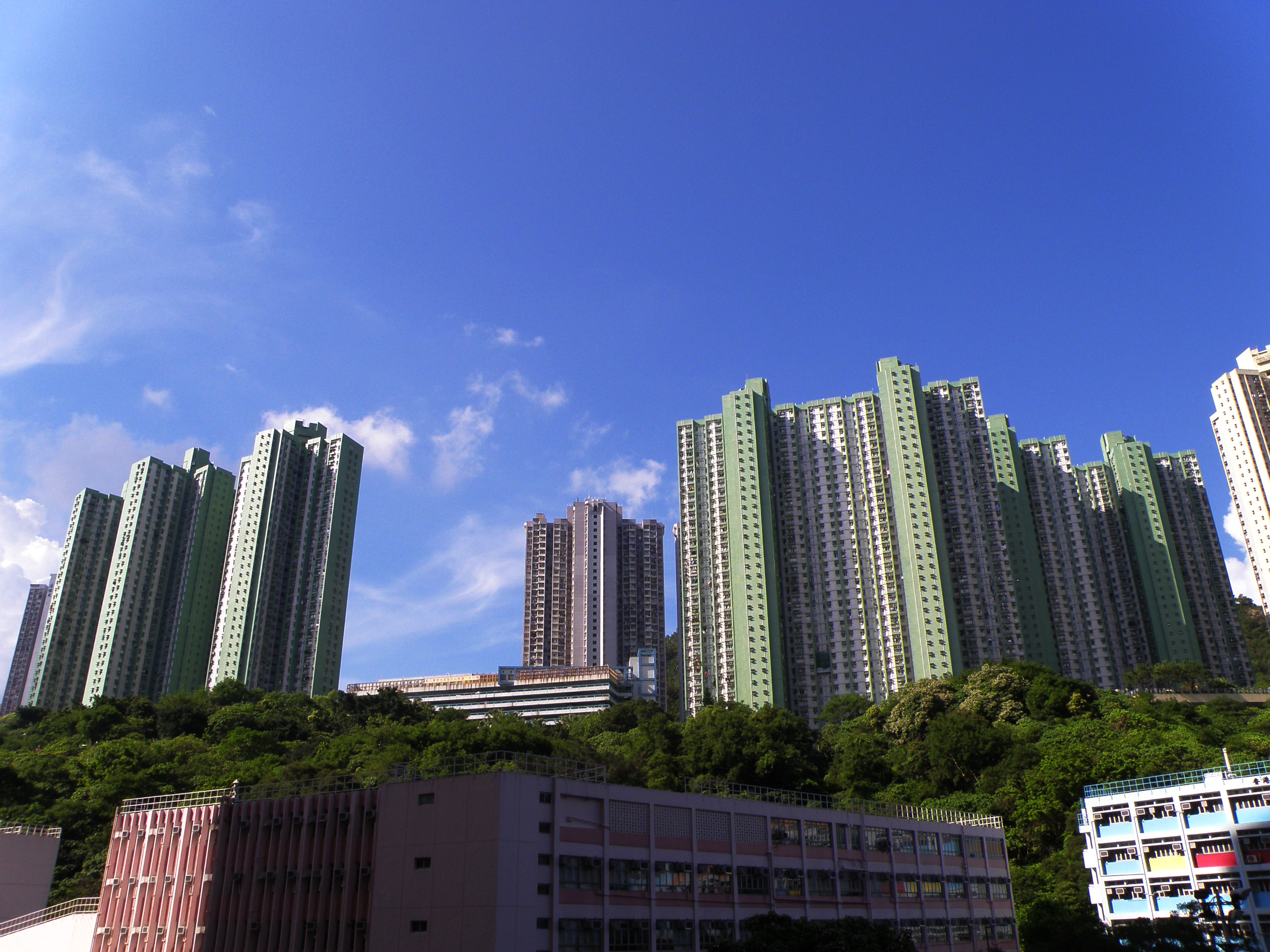 Hong Pak Court in Lam Tin, Hong Kong.